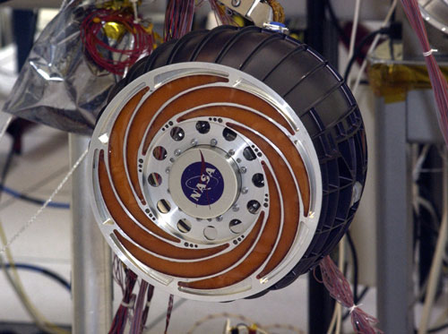 Image of one wheel from the Mars Exploration Rovers.